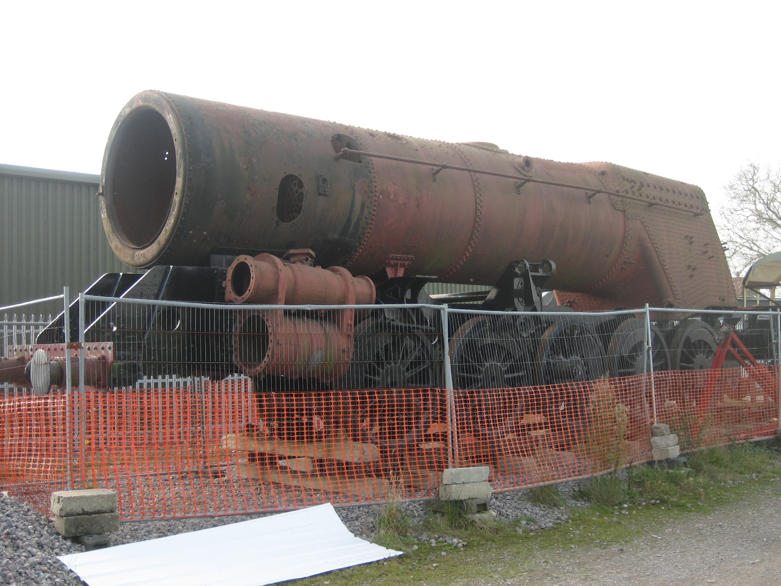 The boiler and wheels of BR 9F 2-10-0 No 92207 Morning Star, Shillingstone station, October 14, 2007